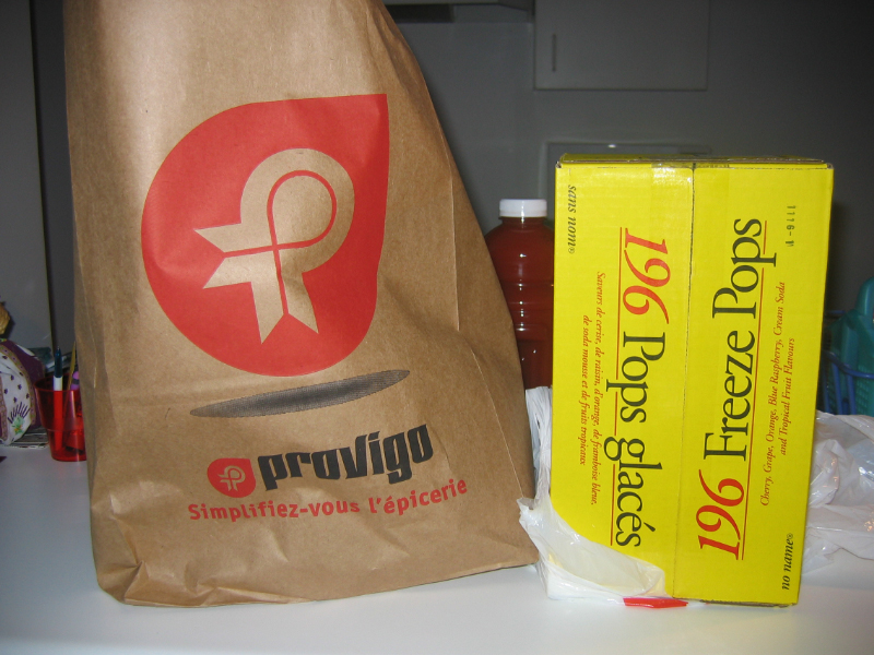 Older logo of Provigo grocery stores (Quebec)